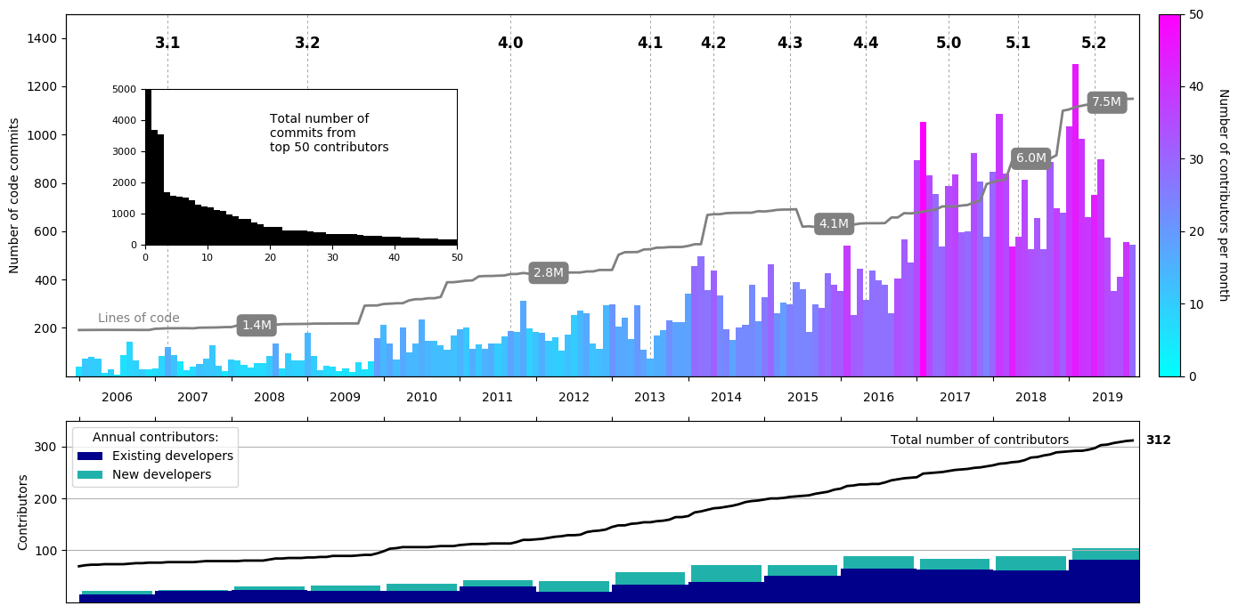 Figure demonstrates the code development activity of the Q-Chem community as the number of code commits each month between 2006-2019